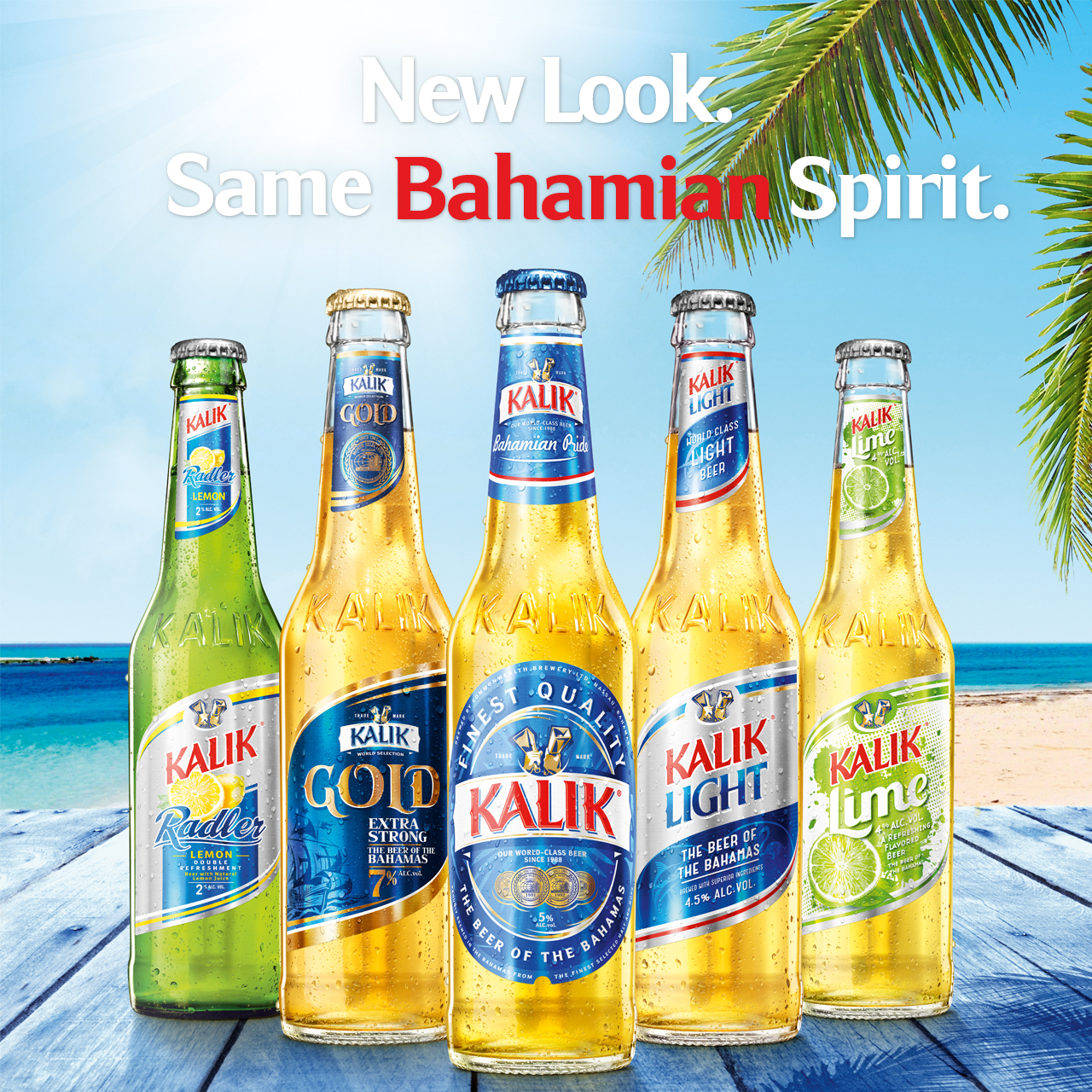 Kalik Family Photo 2